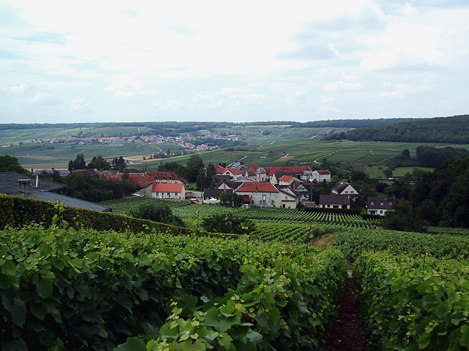 View of Romery, Marne, France.